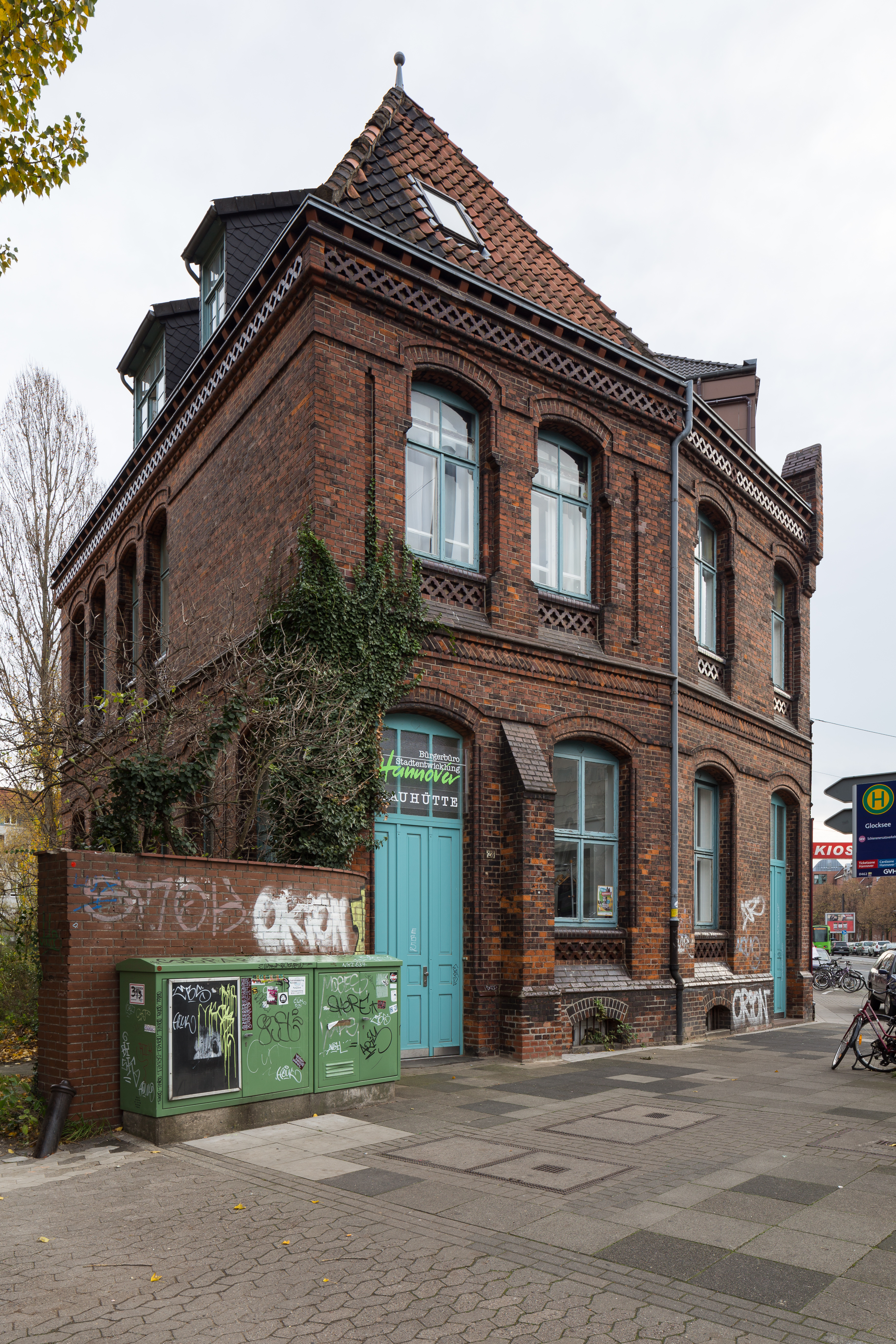 House of Bauhuette organization located at Braunstrasse no. 28 in Calenberger Neustadt quarter of Hannover, Germany.